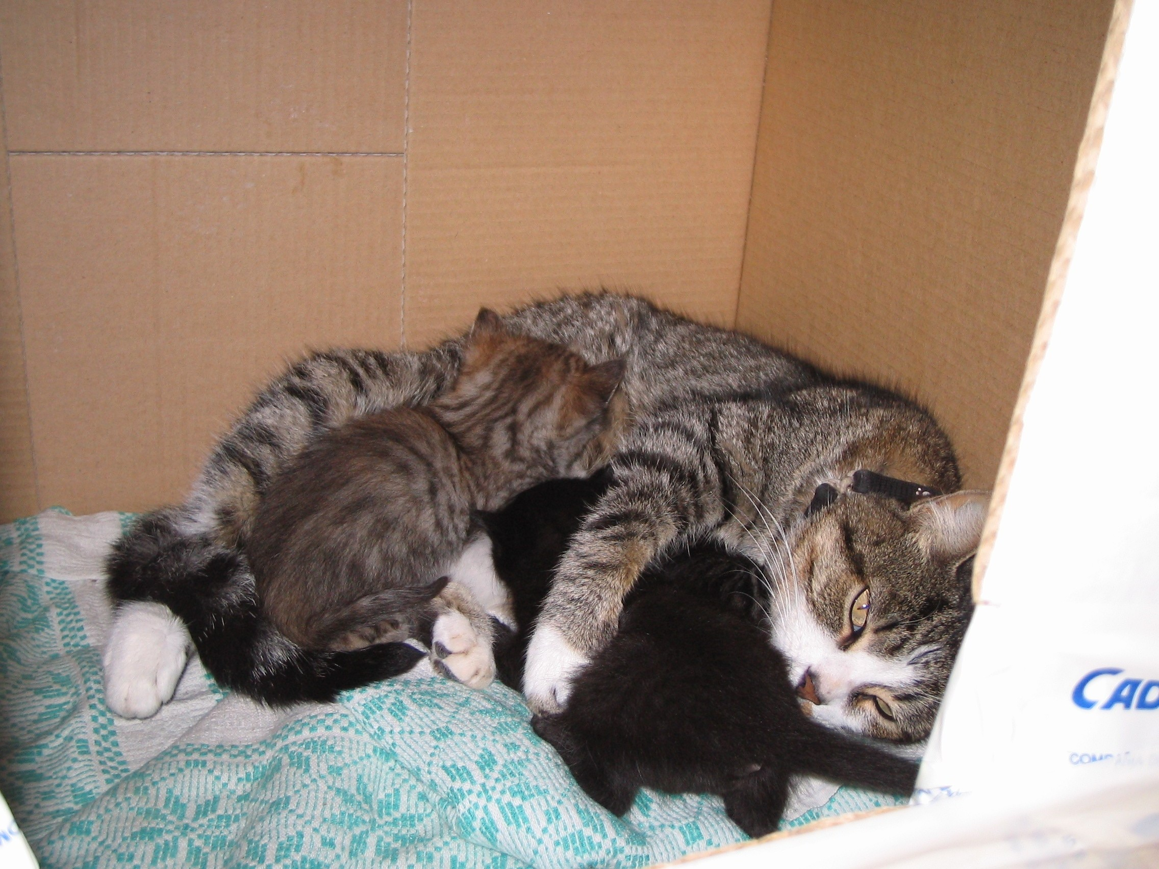 Cats in Camuñas, village in Spain